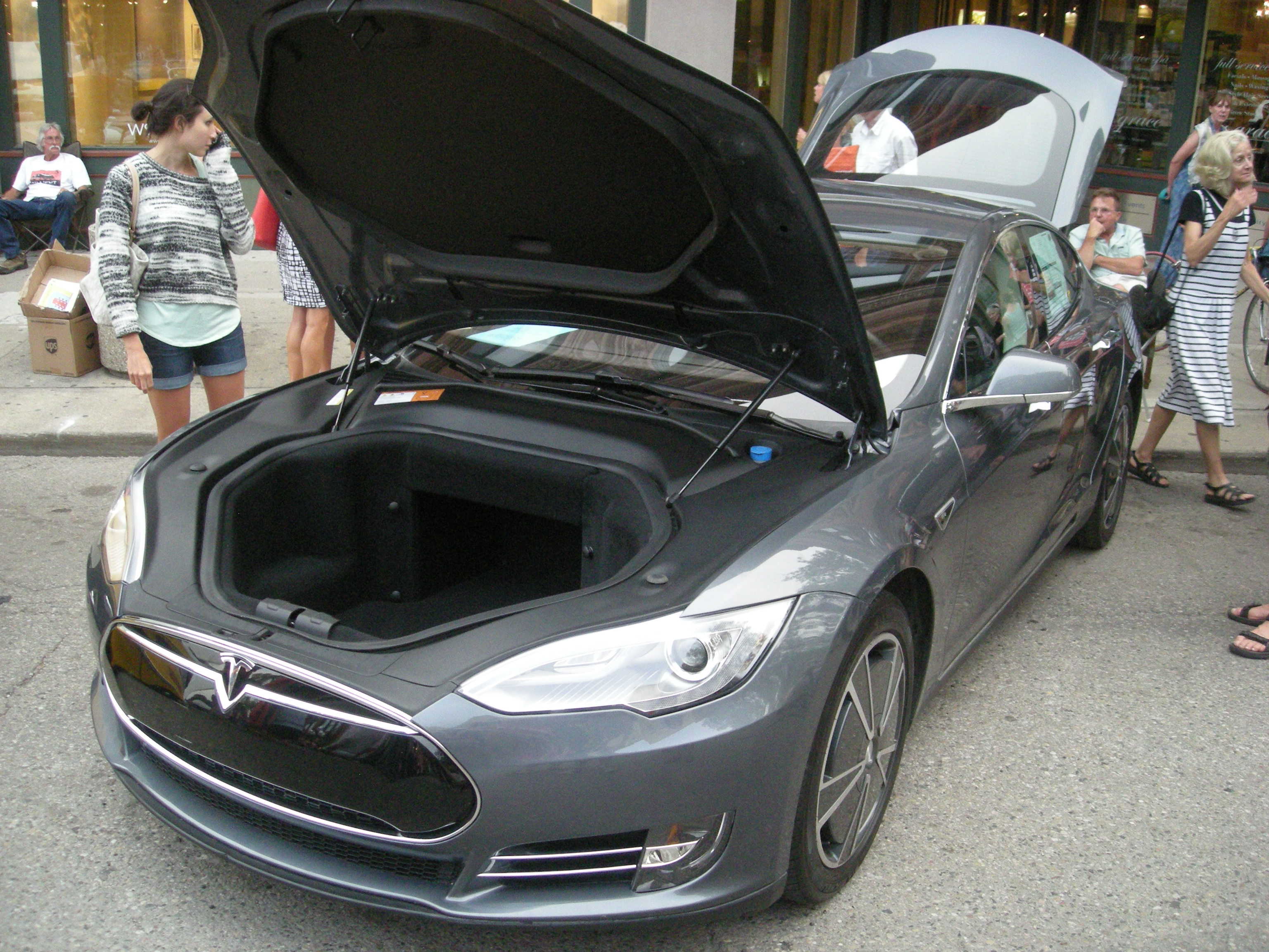 A Tesla Model S at the 2014 Rolling Sculpture Car Show in Ann Arbor, Michigan (United States).